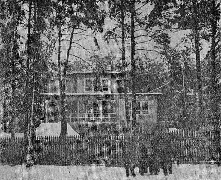 Zasztowt's villa in Augustów (Poland) before 1937.